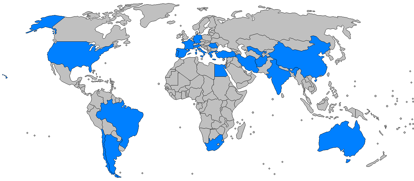 Top grapes countries producers in the world